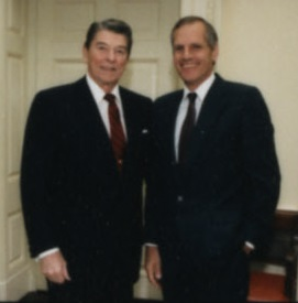 Ronald Reagan and Charles A. Gillespie, Jr. in 1987 in Oval Office